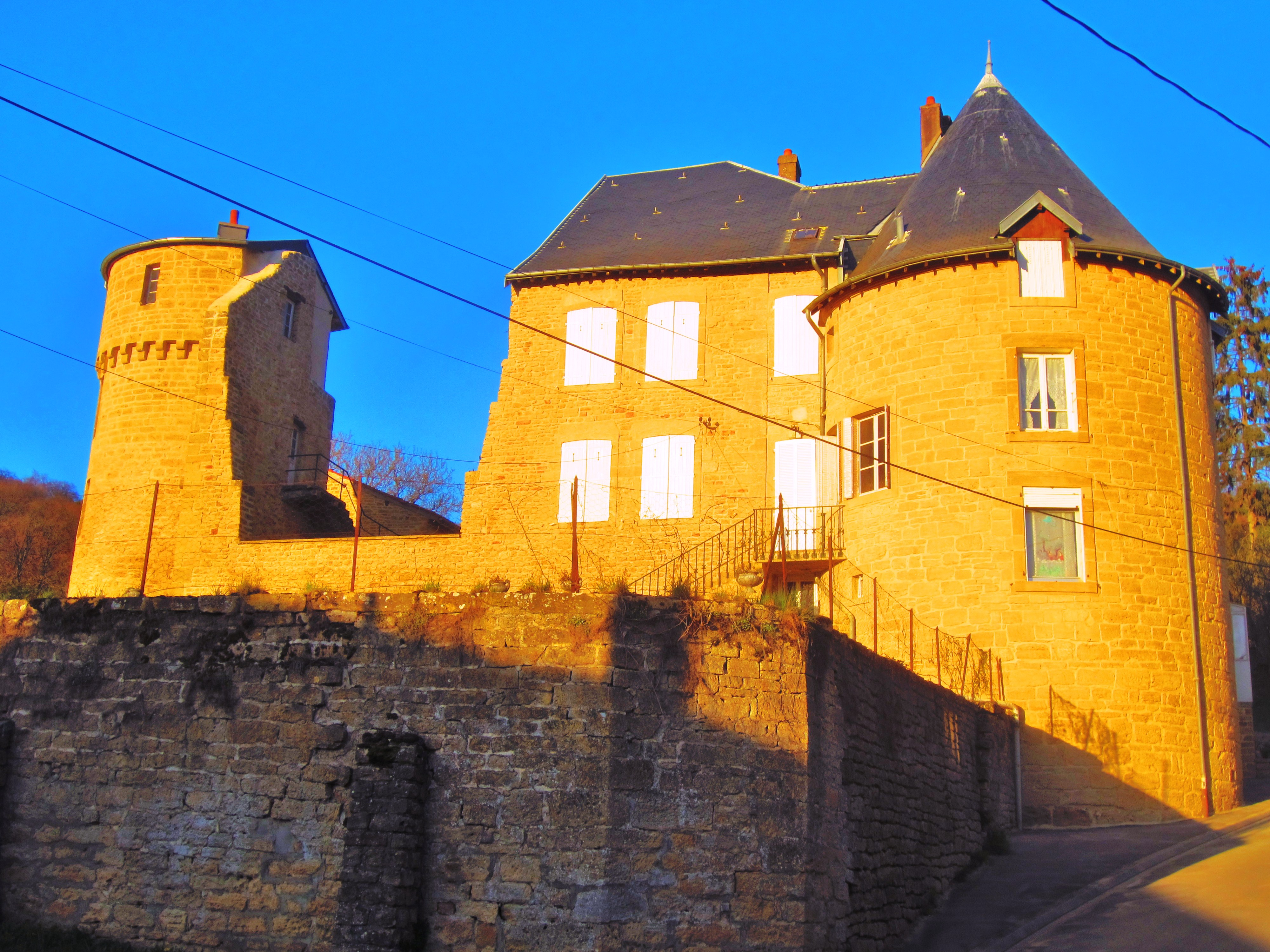 Villette 54 castle